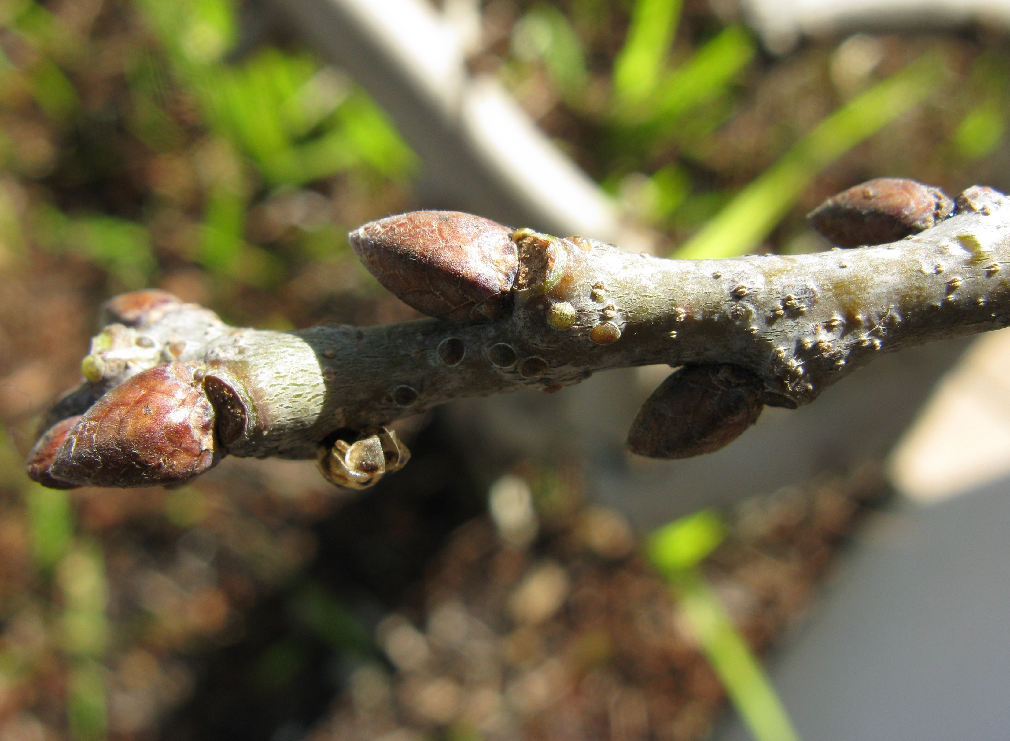 Note the imbricate branch bud scales - protective cataphylls - on these winter buds. When they sprout, they will produce branches, rather than flowers.